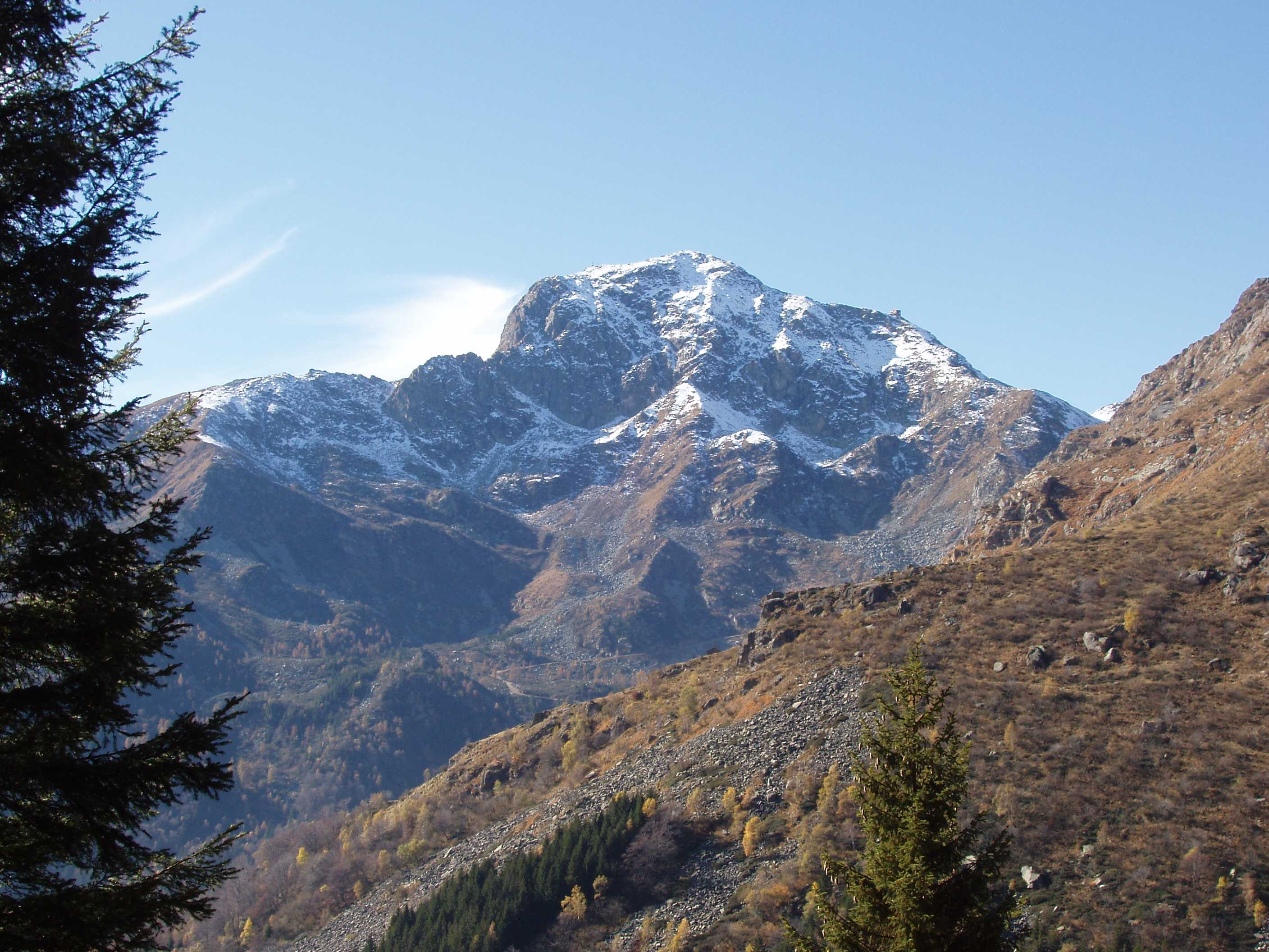 Mount Mucrone from the footpath which clibs up to Mount Becco (Italy, Piedmont)